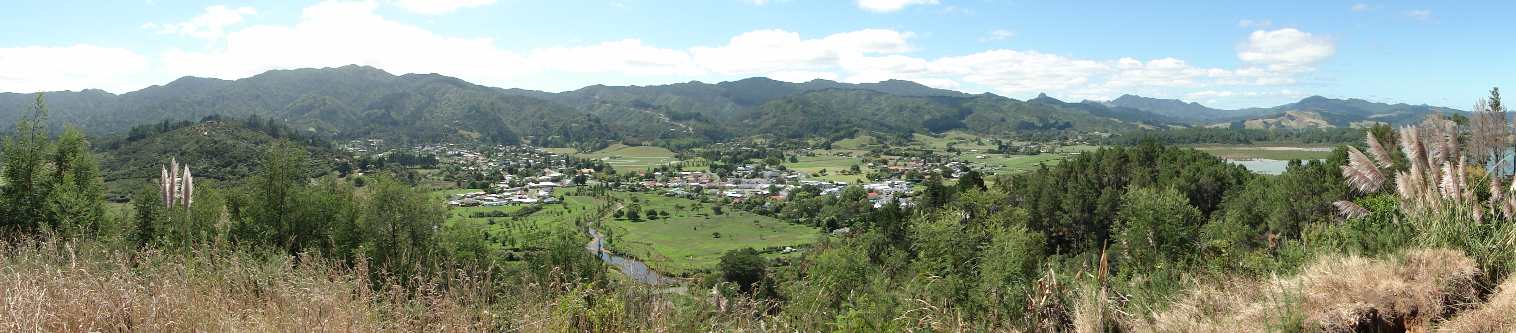 Panoramic view of Coromandel (also known as Coromandel Town), New Zealand.